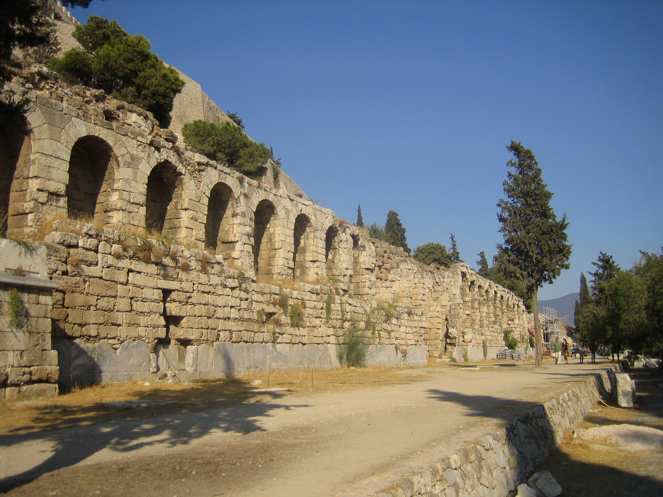 Stoa of Eumenes, south slope of Acropolis, Athens, Greece.